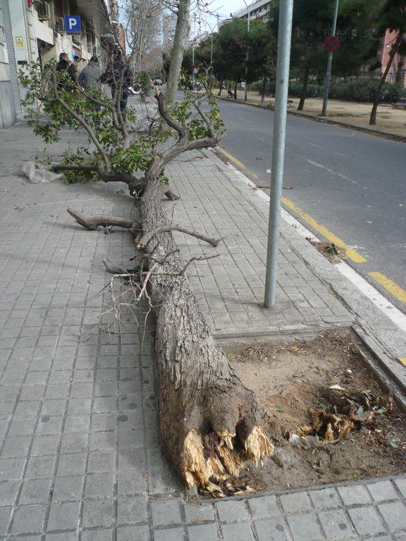 Ligustrum thrown down by wind, in Barcelona.